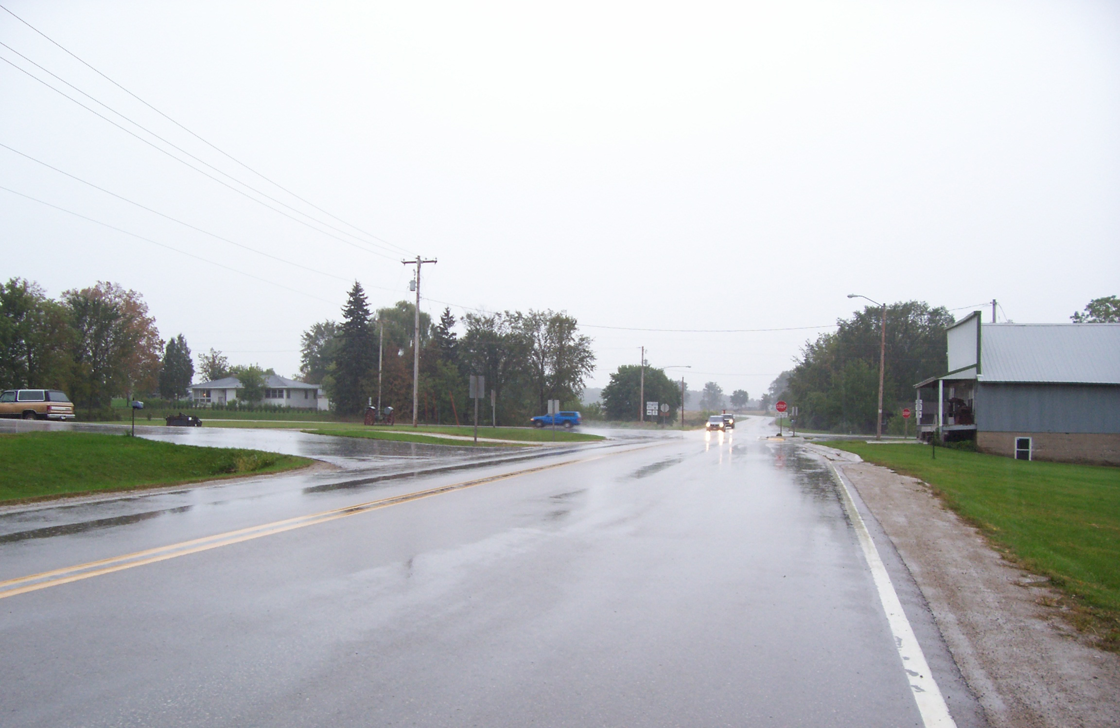 The southern terminus of Highway 116 (Wisconsin) near Waukau, Wisconsin. The crossroad is Highway 91 (Wisconsin). This image was taken on September 23, 2006 and cropped by User:Royalbroil. Category:Images of Wisconsin highways